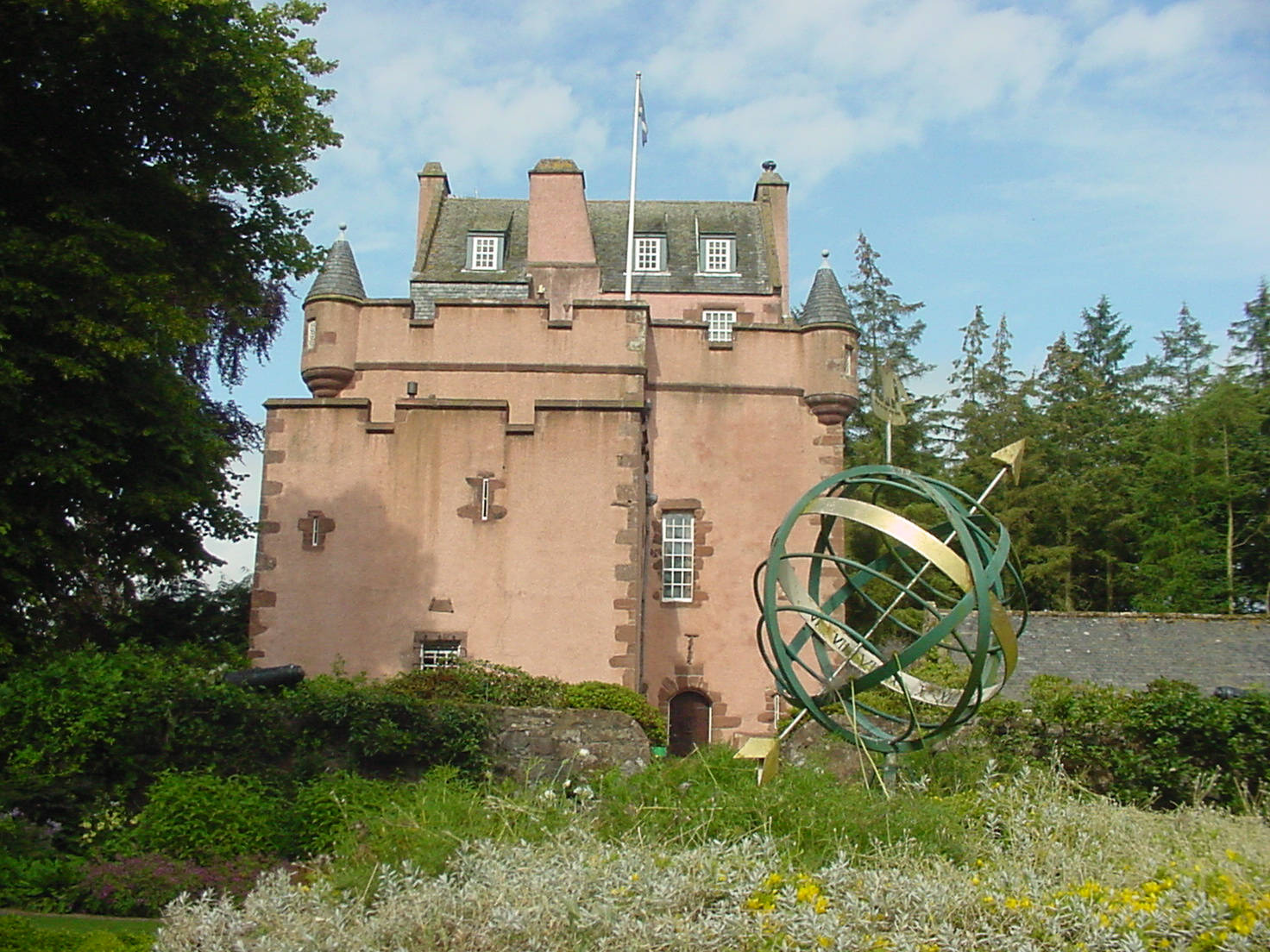 This is a photograph of Towie Barclay Castle in Aberdeenshire, Scotland.